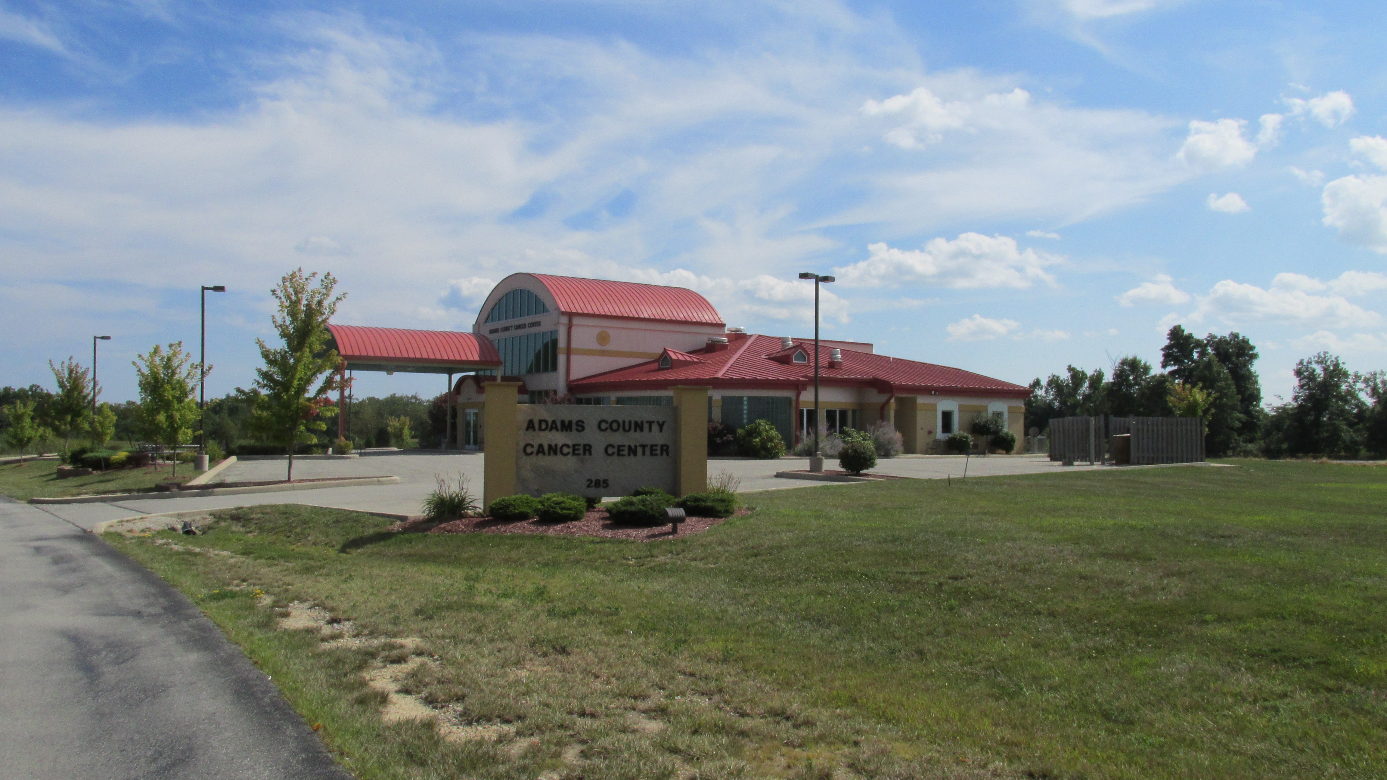 Adams County Cancer Center in Seaman, Ohio.